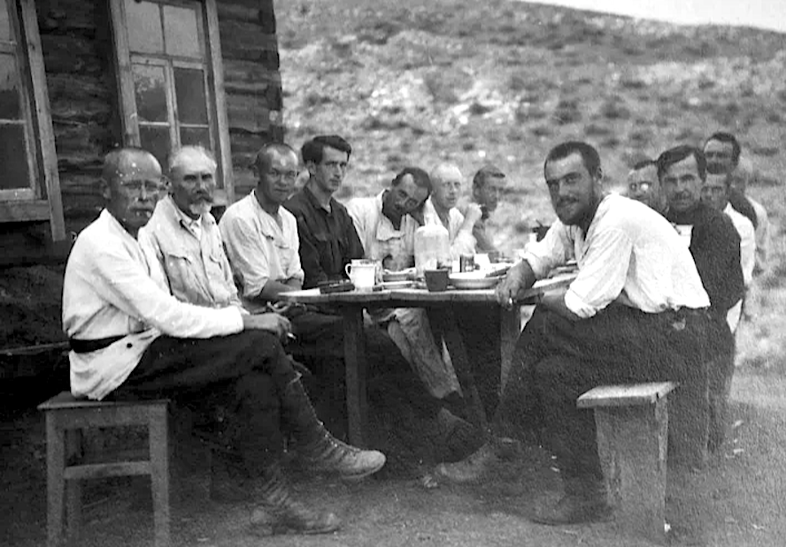 Ya.S. Edelstein (second from left) with colleagues on an expedition to Transbaikalia.